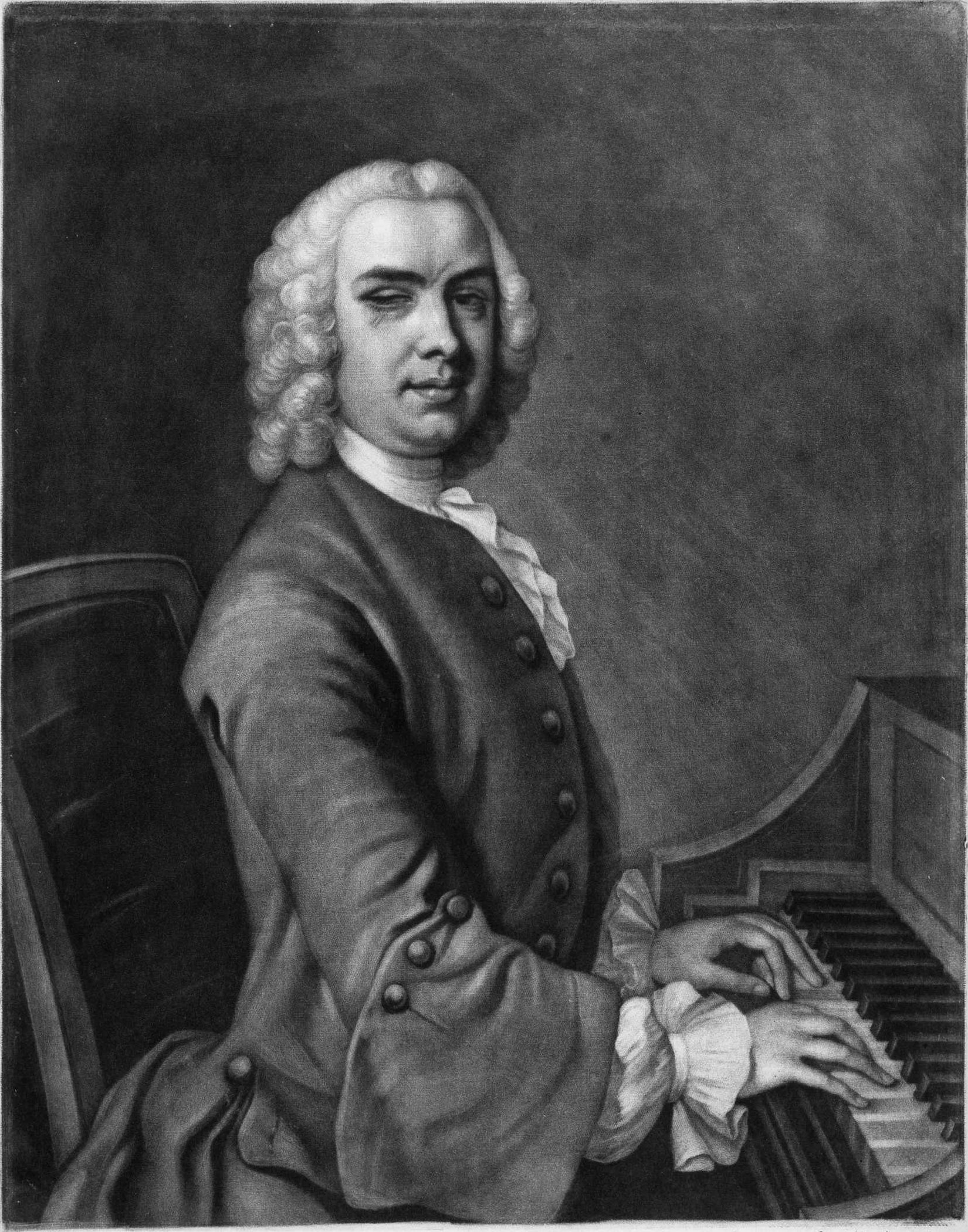 picture of 18th c. english composer John Stanley